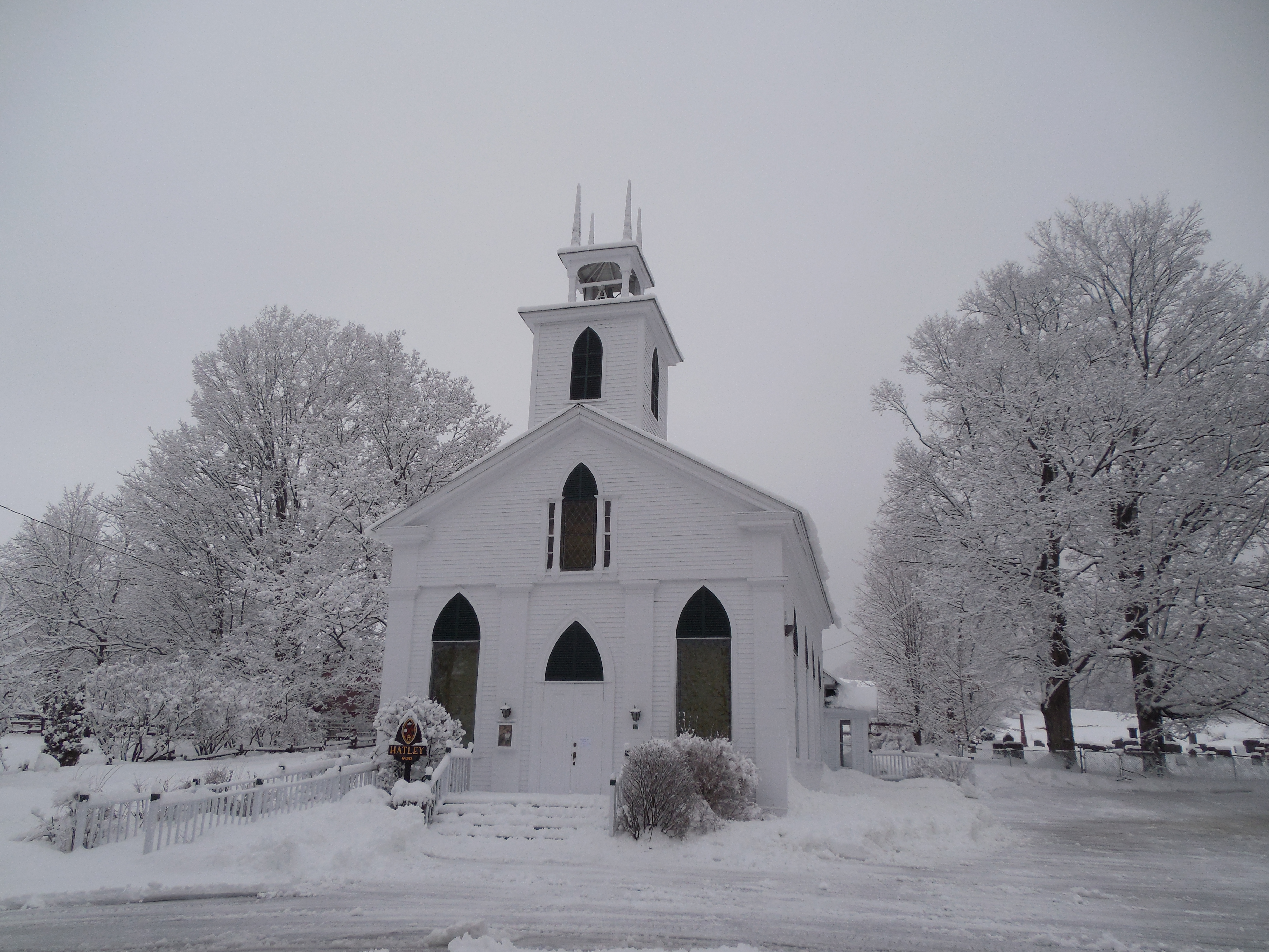 Hatley Église Unie sur rue principale, Hatley, Québec / Hatley United Church on Main St., Hatley, Quebec